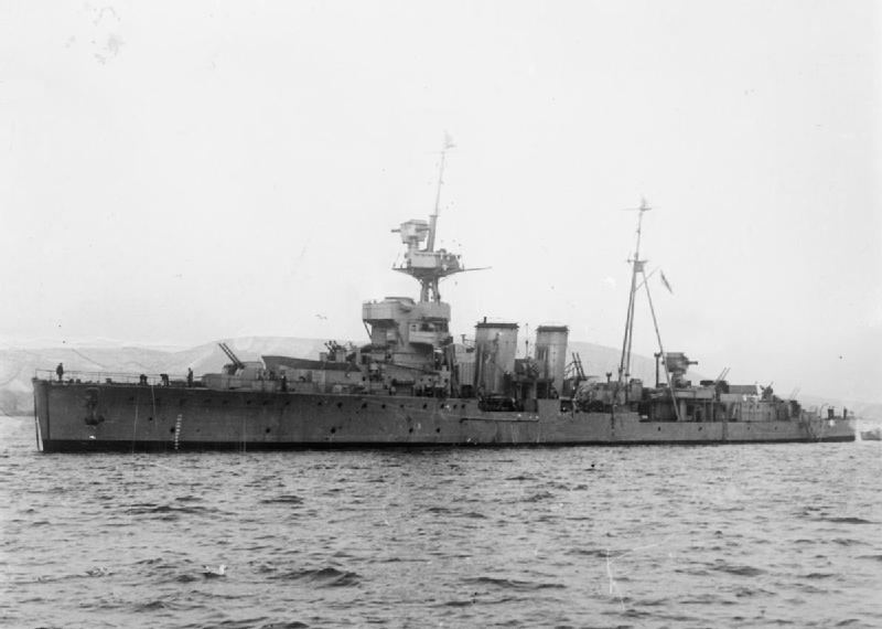 The Royal Navy during the Second World War The Ceres class cruiser HMS CURACOA.